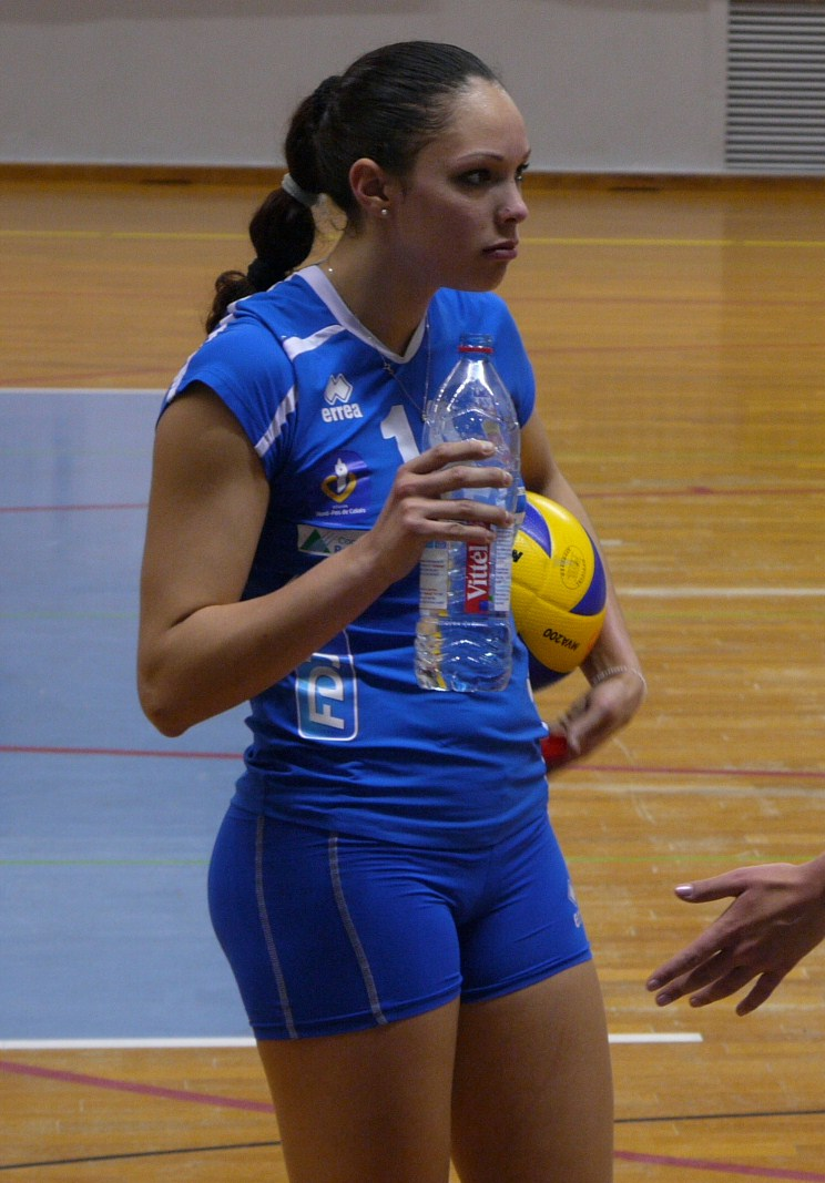 French volleyball player Mélinda Hennaoui